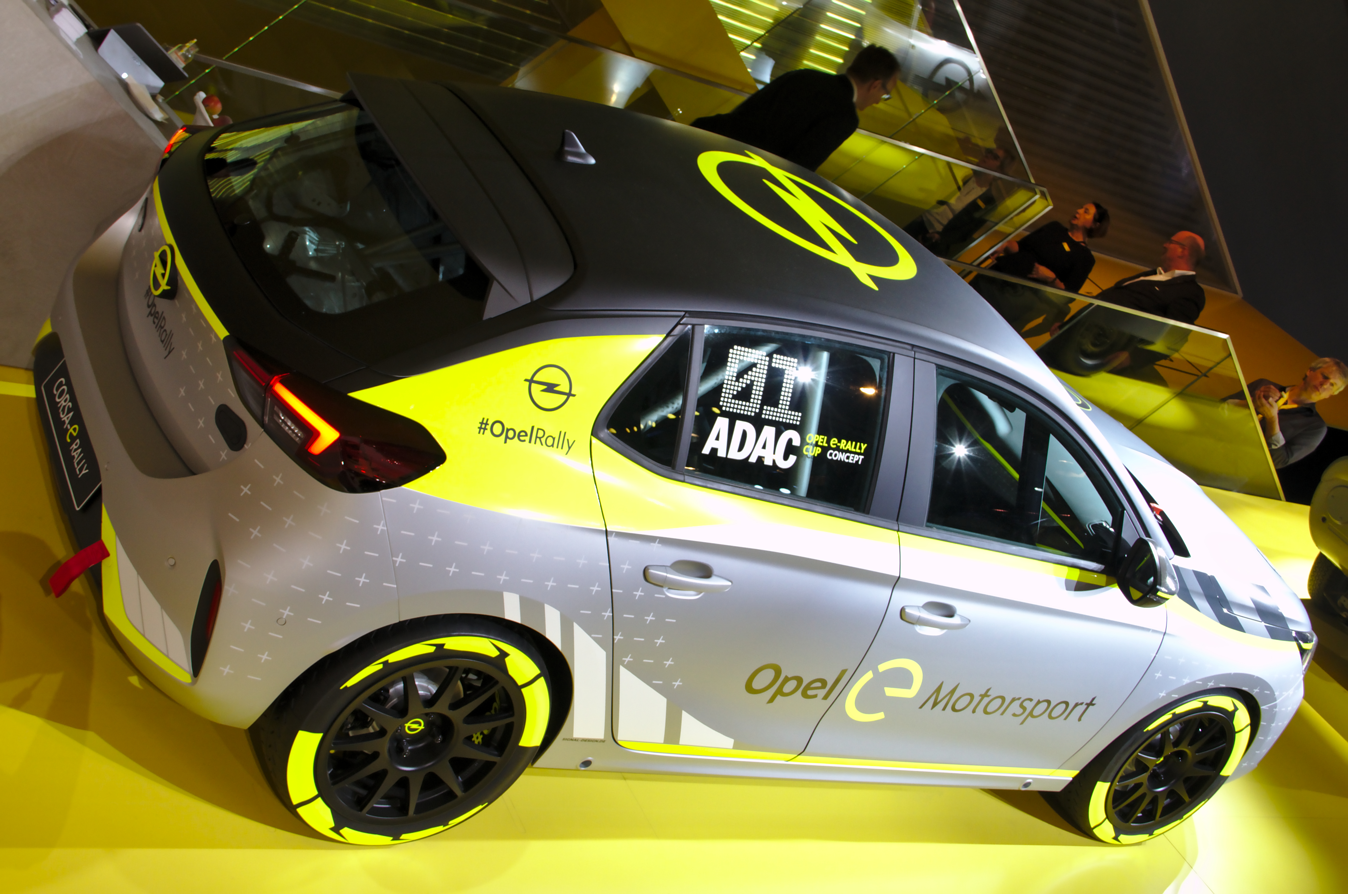 Opel_Corsa-e_Rally at IAA 2019